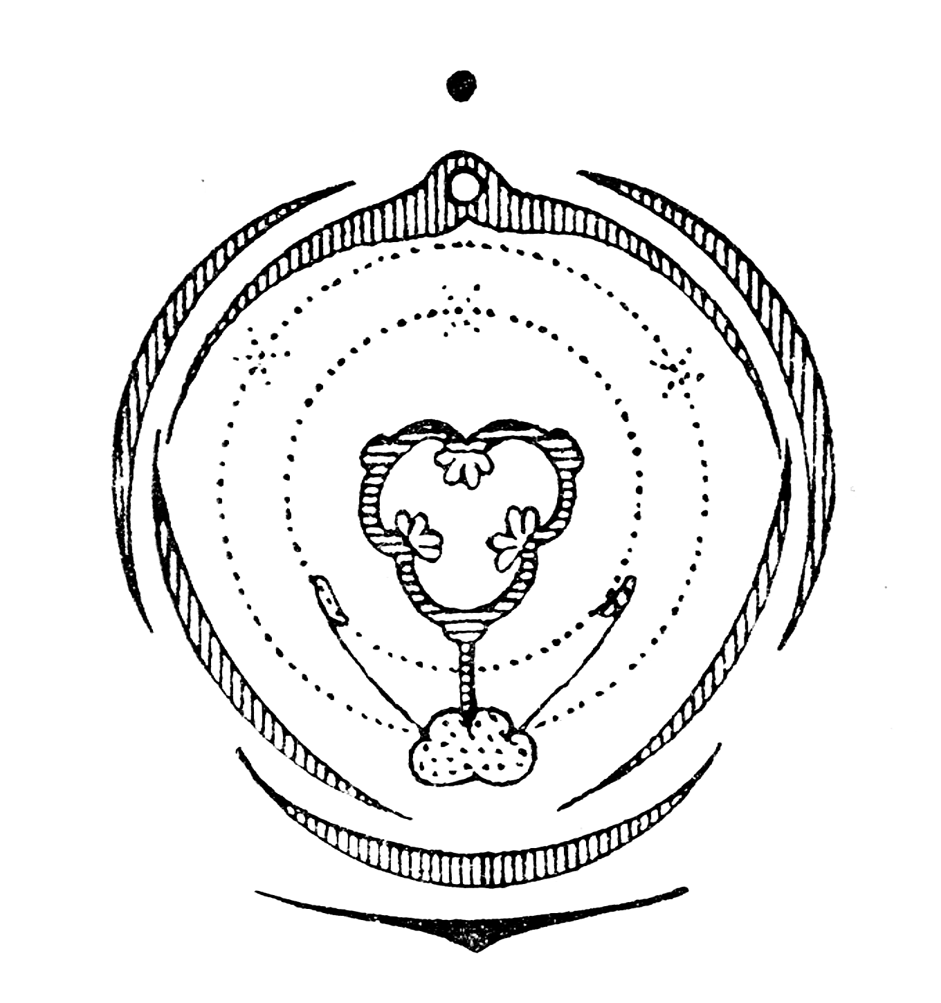 Flower diagram of Orchis